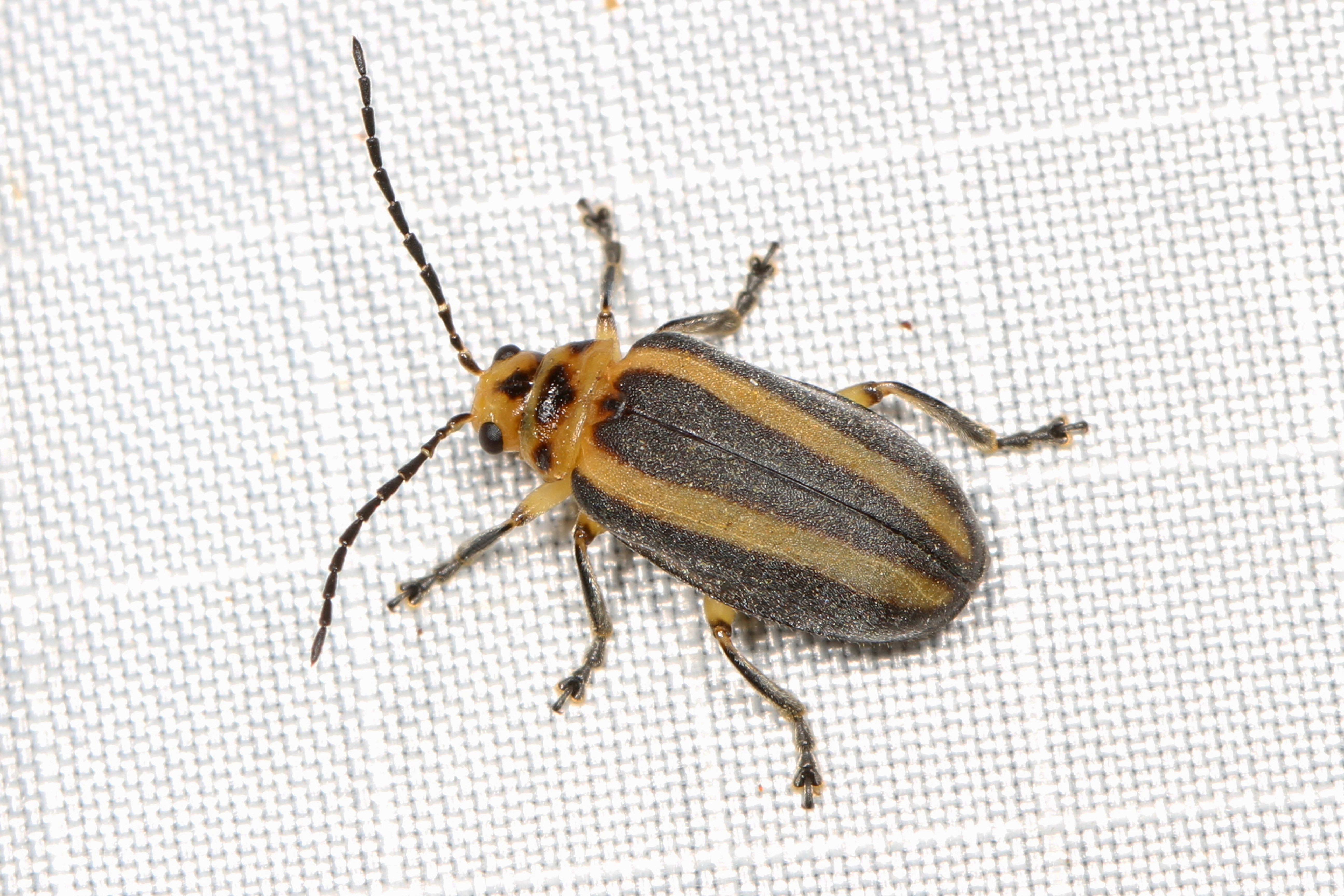 Leaf Beetle - Derospidea brevicollis, Sapelo Island, Georgia.